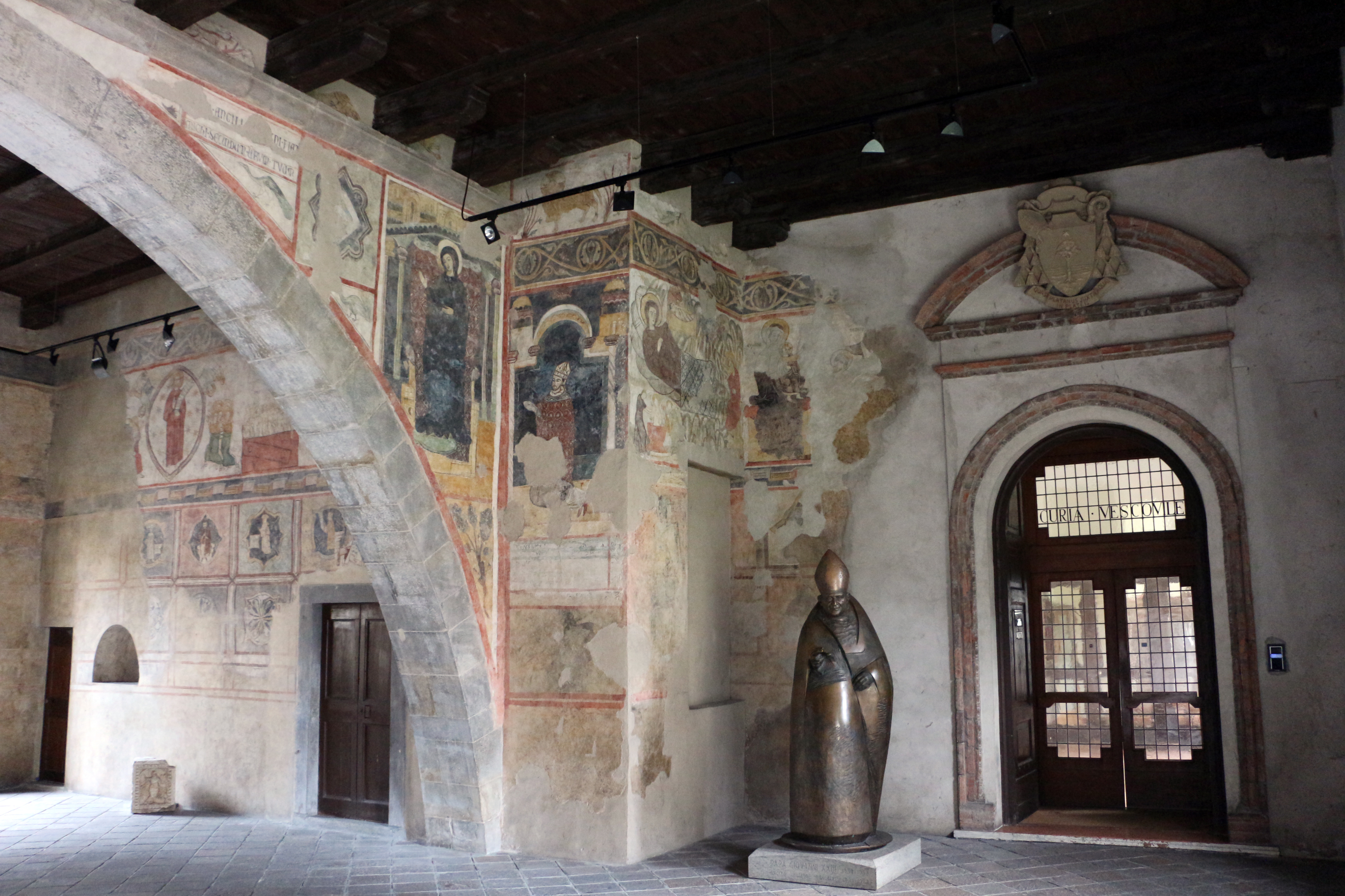 Palazzo della Curia Vescovile (Bergamo)